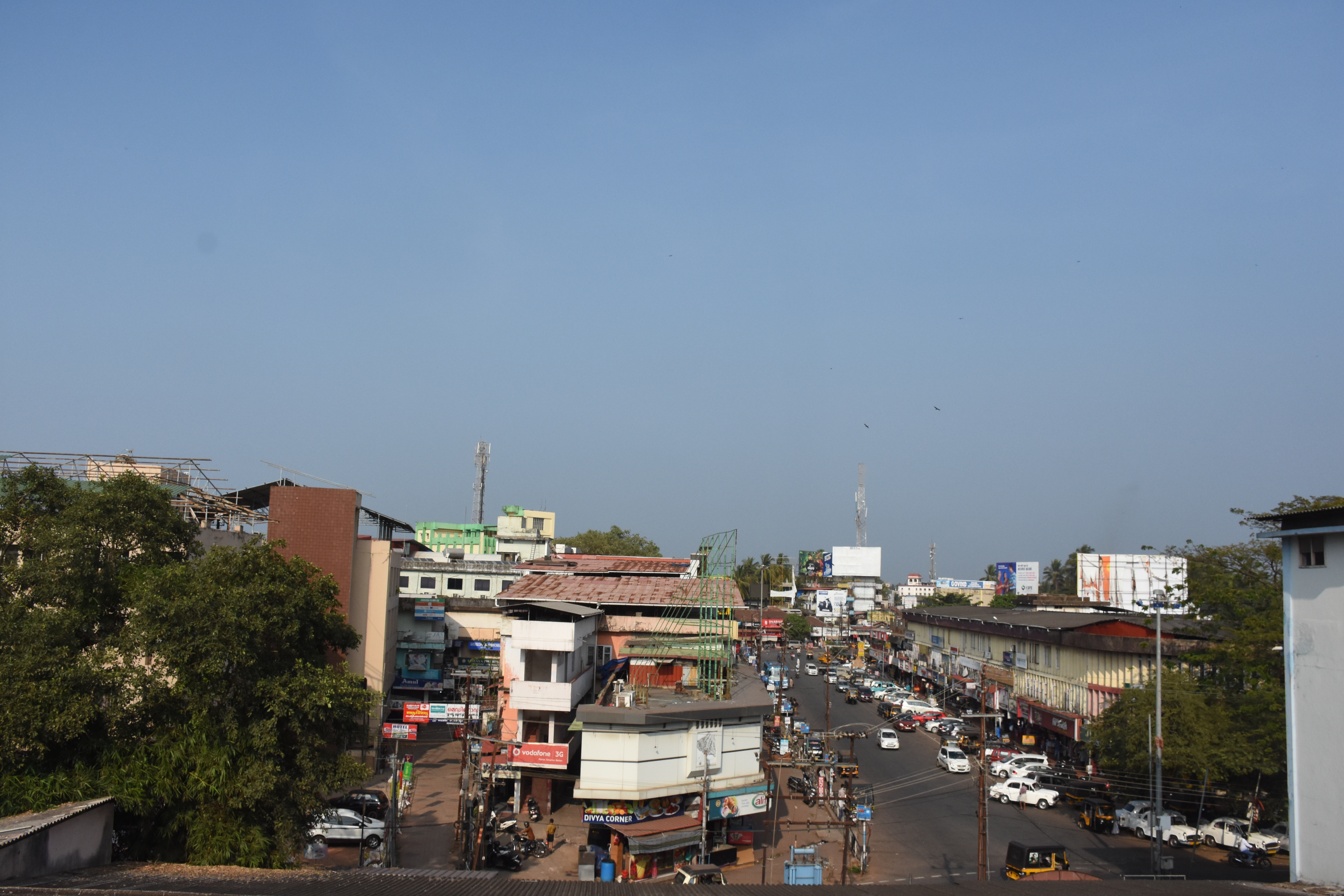 Hospital road Thalassery. View from Thalassery fort